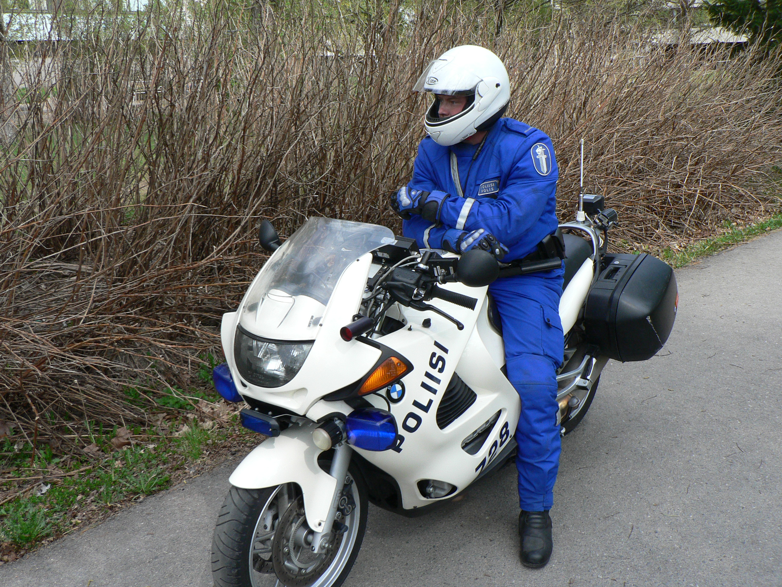 Police motorcycle in Lieto Finland 2006